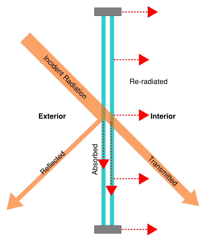 Solar heat gain diagram through a window